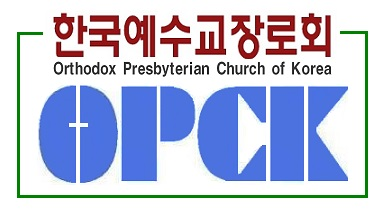 Logo of the Orthodox Presbyterian Church of Korea